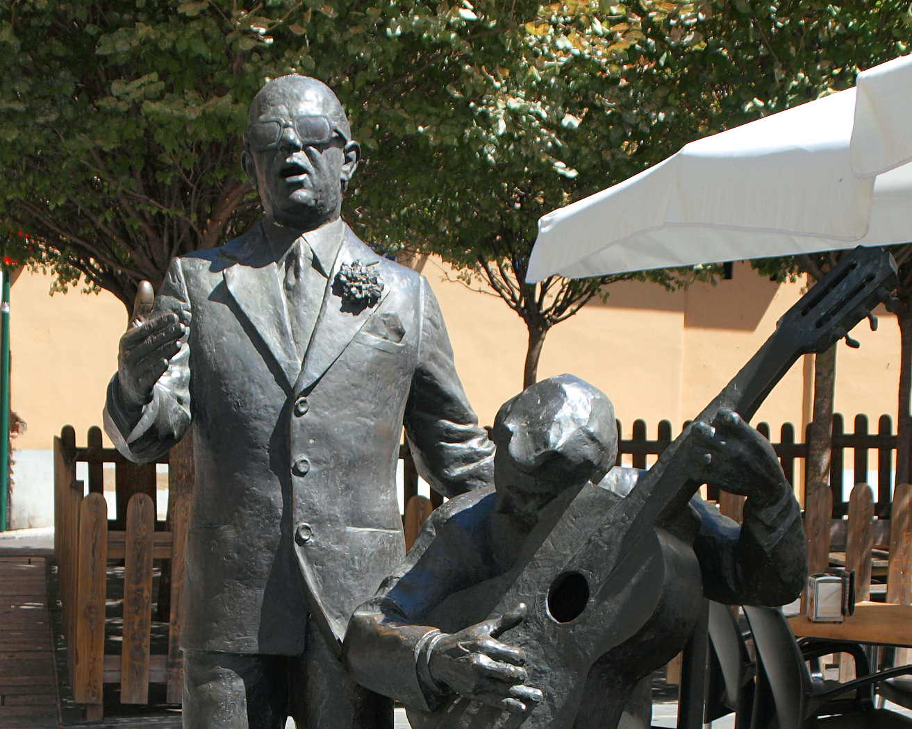 Statue of Porrina de Badajoz at Plaza de la Soledad, Badajoz